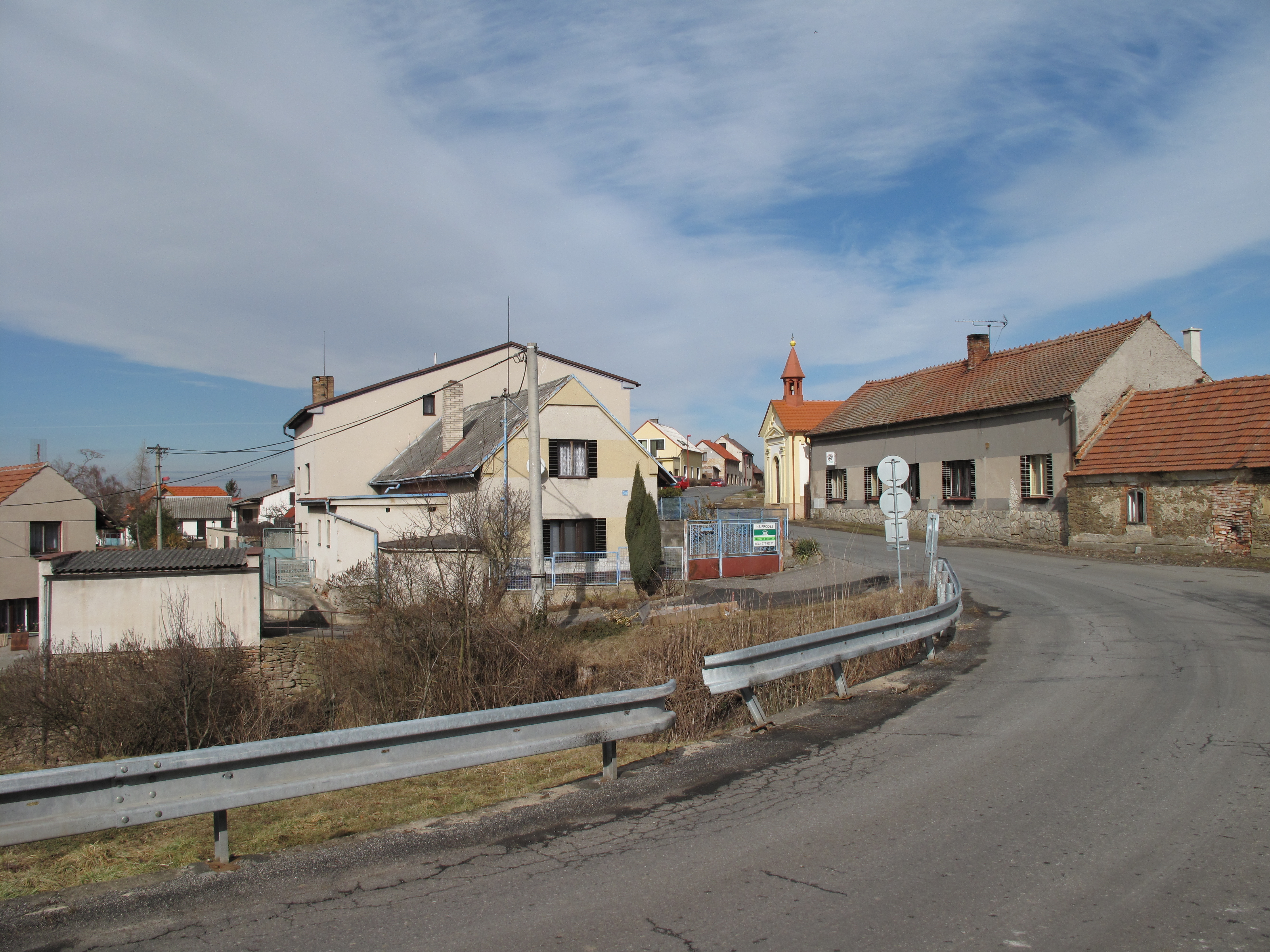 Road in Bojiště village, Červené Pečky market town, Kolín District, Czech Republic.